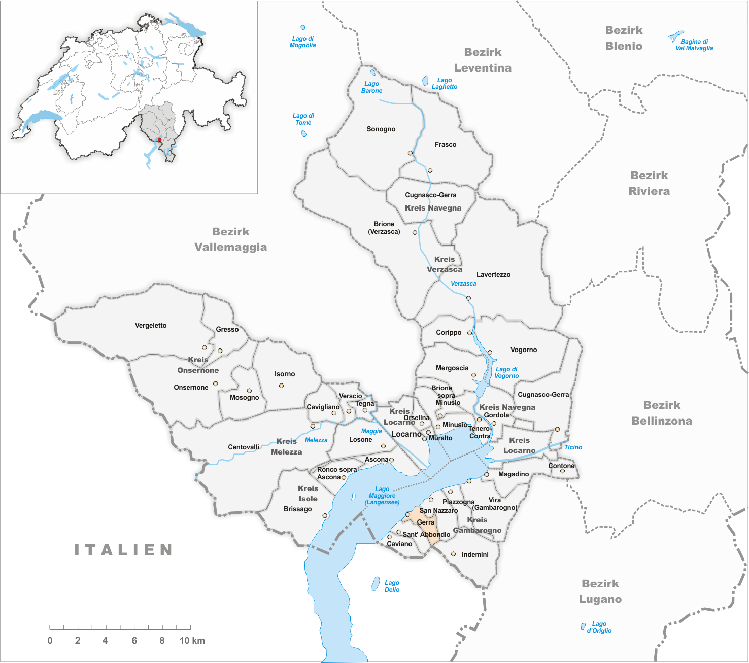 Municipality Gerra (Gambarogno) Artist: Tschubby